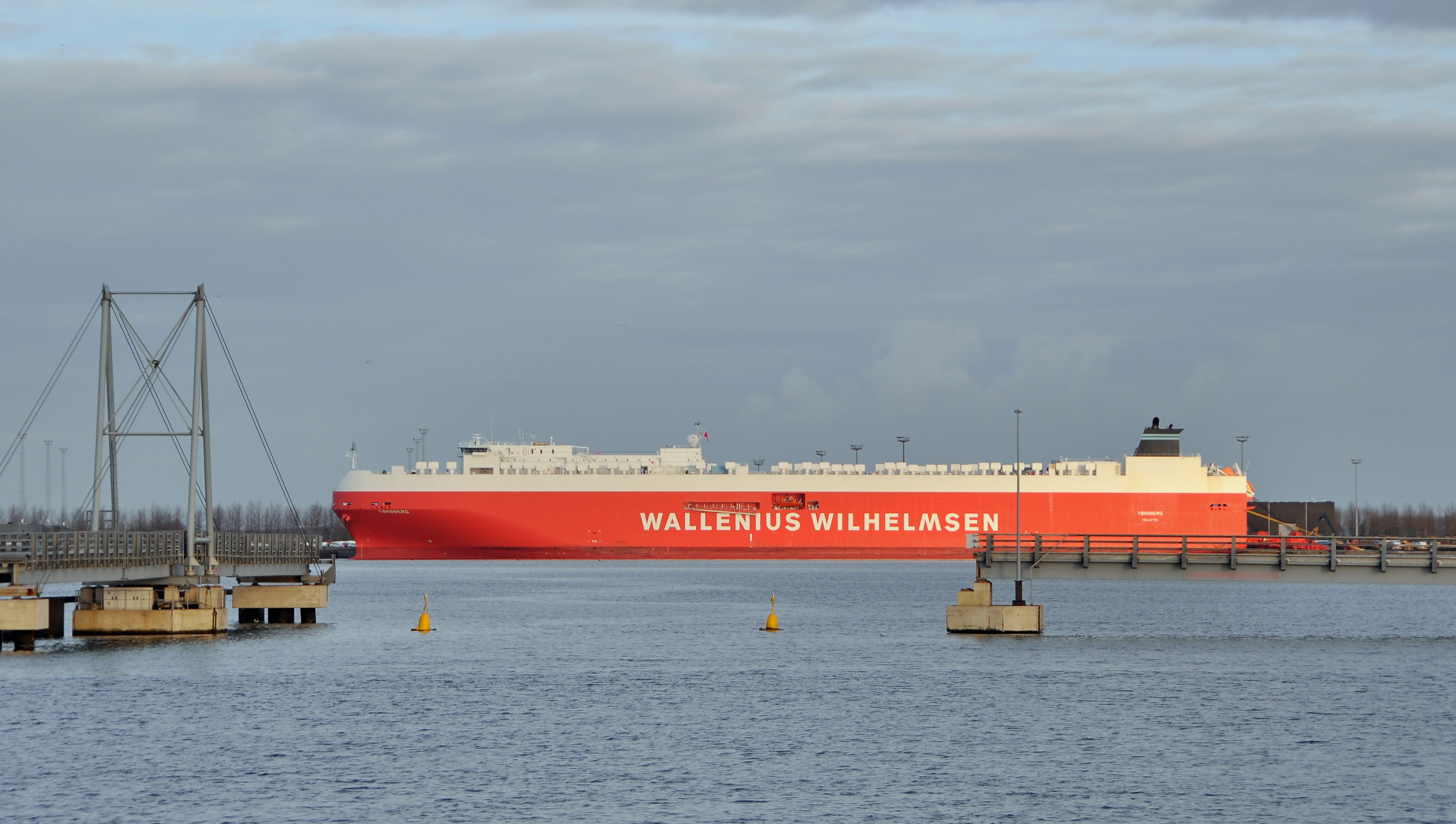 MV Tønsberg (Ro/Ro vessel of Mark V class, Wallenius Wilhelmsen Logistics, built 2010-2011) in the port of Zeebrugge (Belgium)